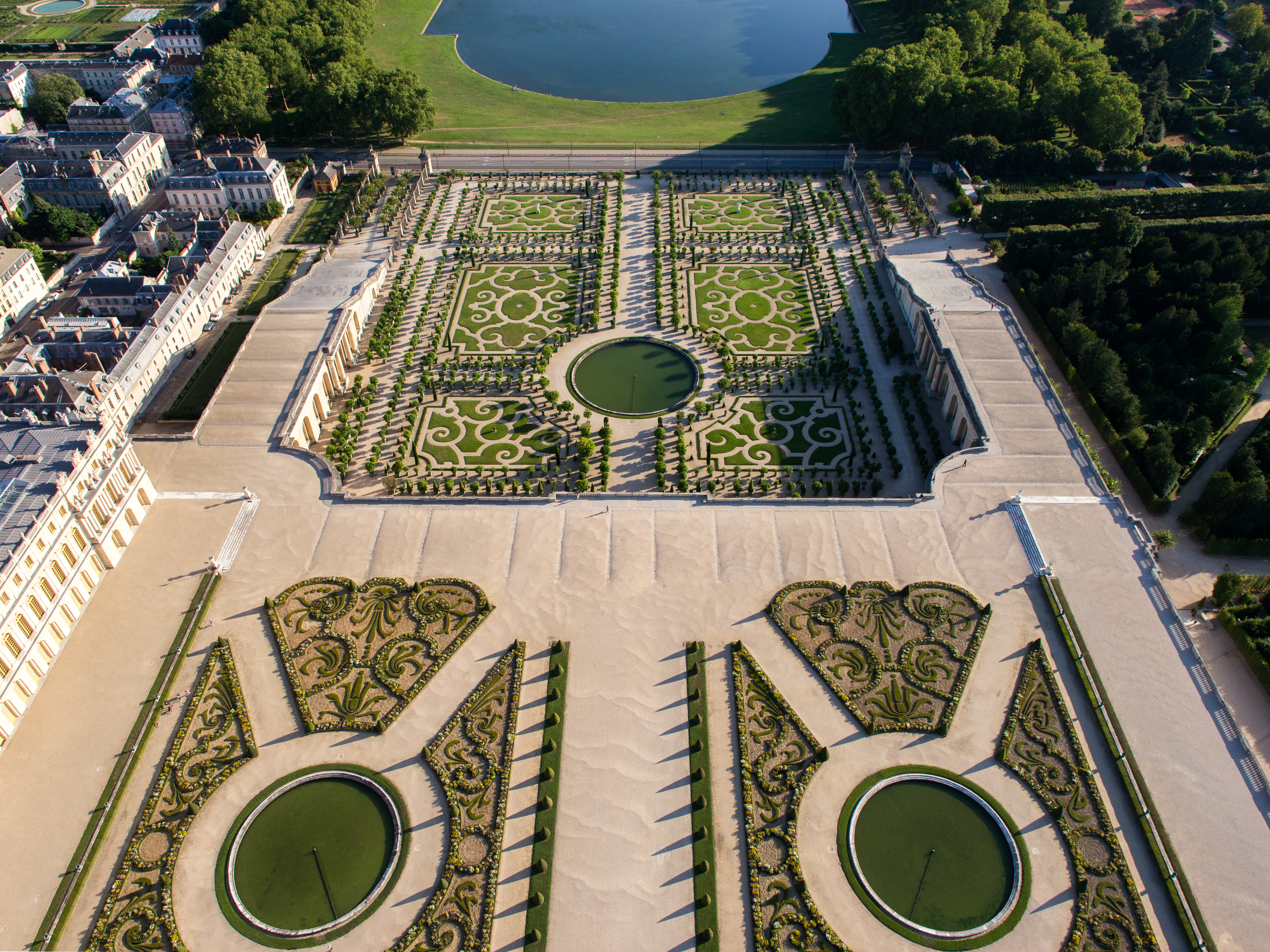 Aerial view of the Gardens of the Palace of Versailles, France, with the Parterre du Midi, Parterre de l'Orangerie et pièce d'eau des Suisses